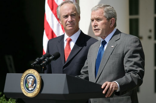 As U.S. Interior Secretary Dirk Kempthorne looks on, President George W. Bush delivers a statement on energy Wednesday, June 18, 2008, in the White House Rose Garden of the White House.